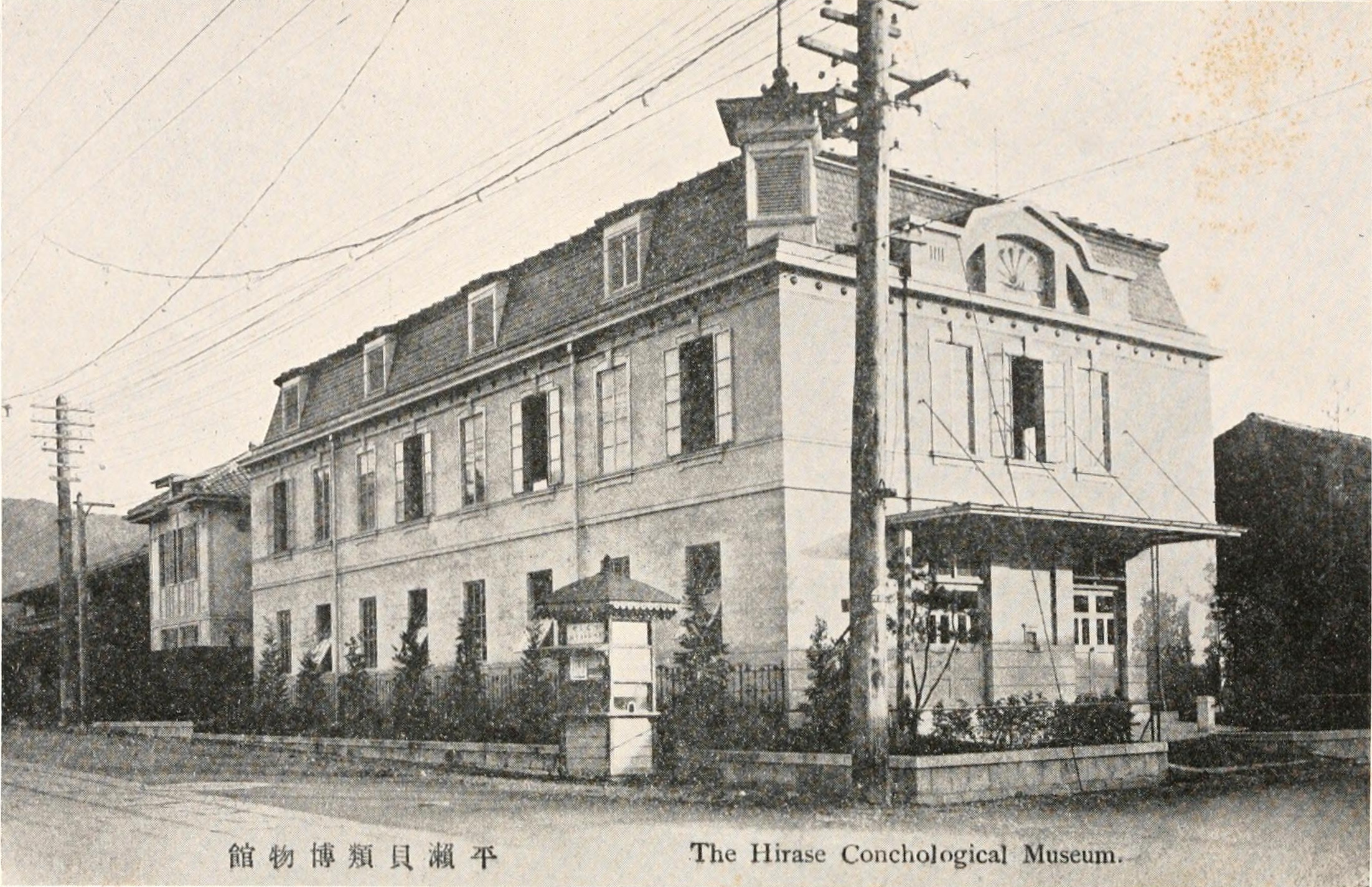 Photo of the Hirase Conchological Museum in Kyoto.